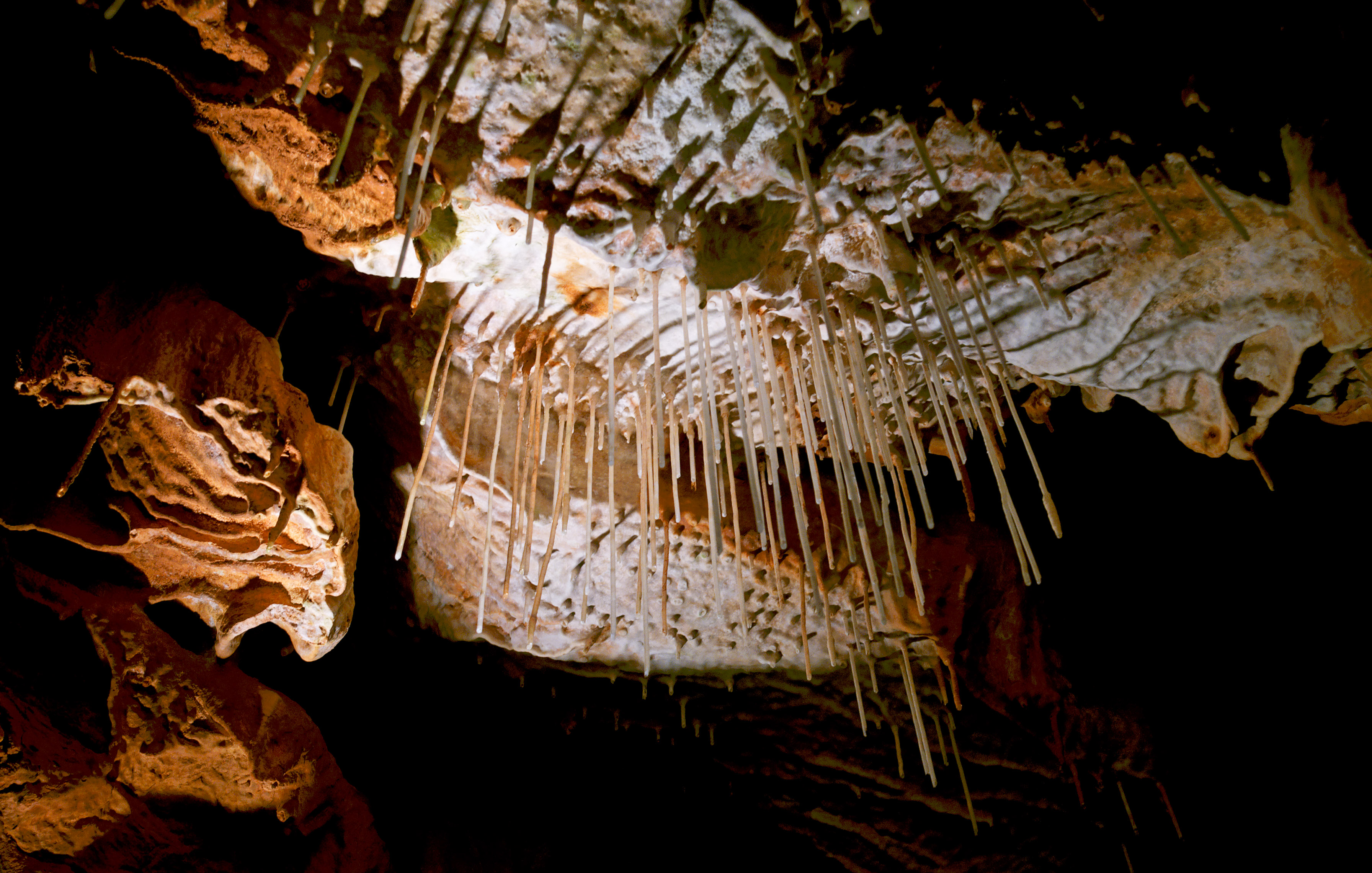 Gombasek Cave